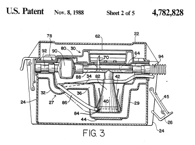 PraeceptorIP; US patent database; This is a US Government document and by law cannot be subject to copyright protection. The image is of a patent involved in the case of Mallinckrodt v. Medipart, US Federal Circuit.